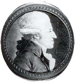 Durand Borel de Brétizel